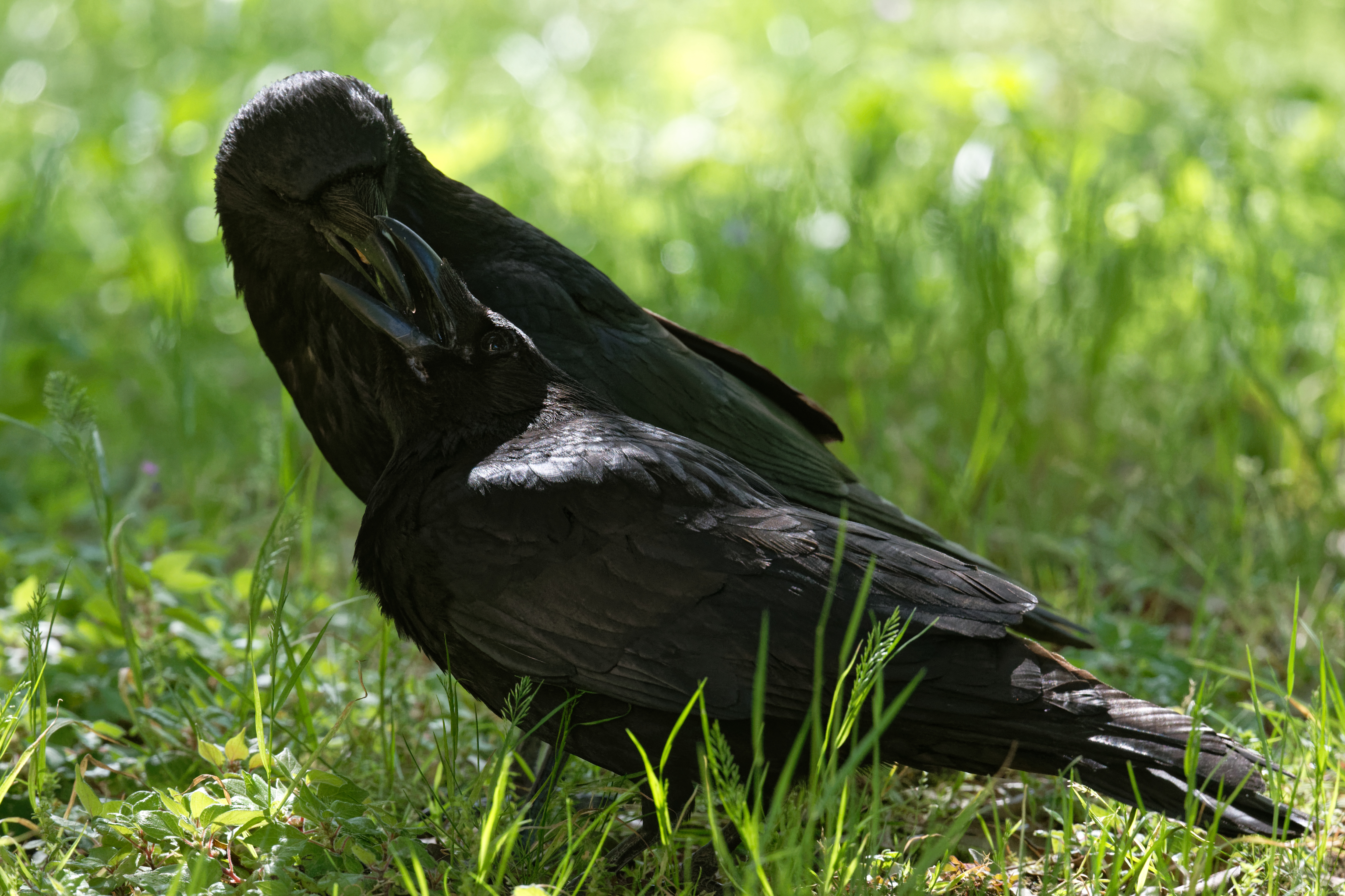 Chad, a male Carrion Crow (Corvus corone), feeds his mate Daphne under their nest, during incubation, at the Jardin des Plantes in Paris.